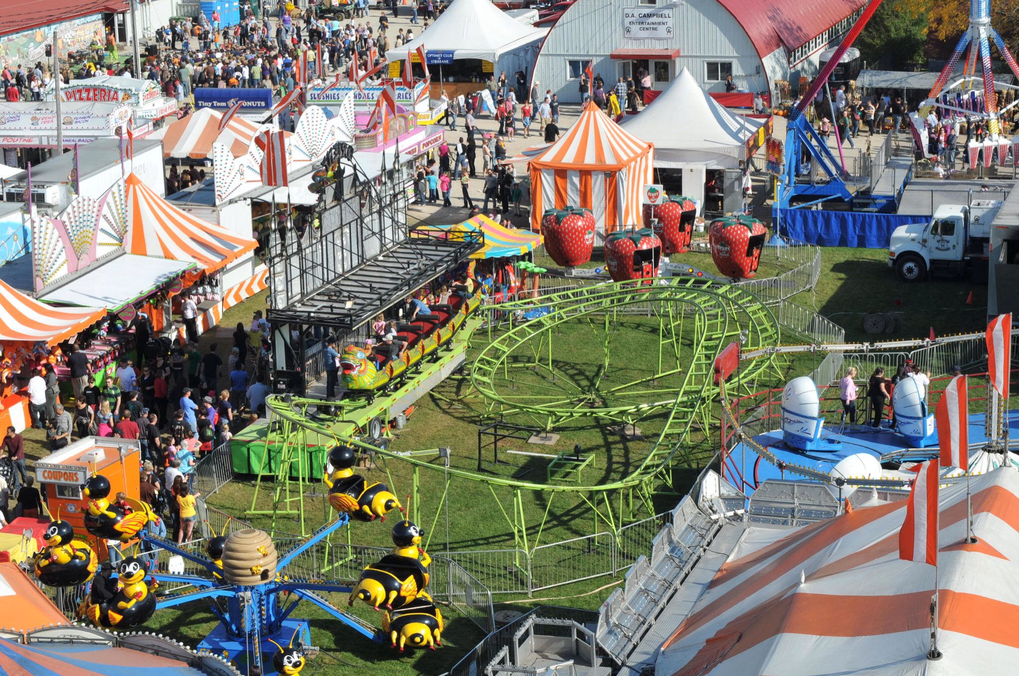 An overview of the Rockton World's Fair, Rockton, Ontario, Canada.